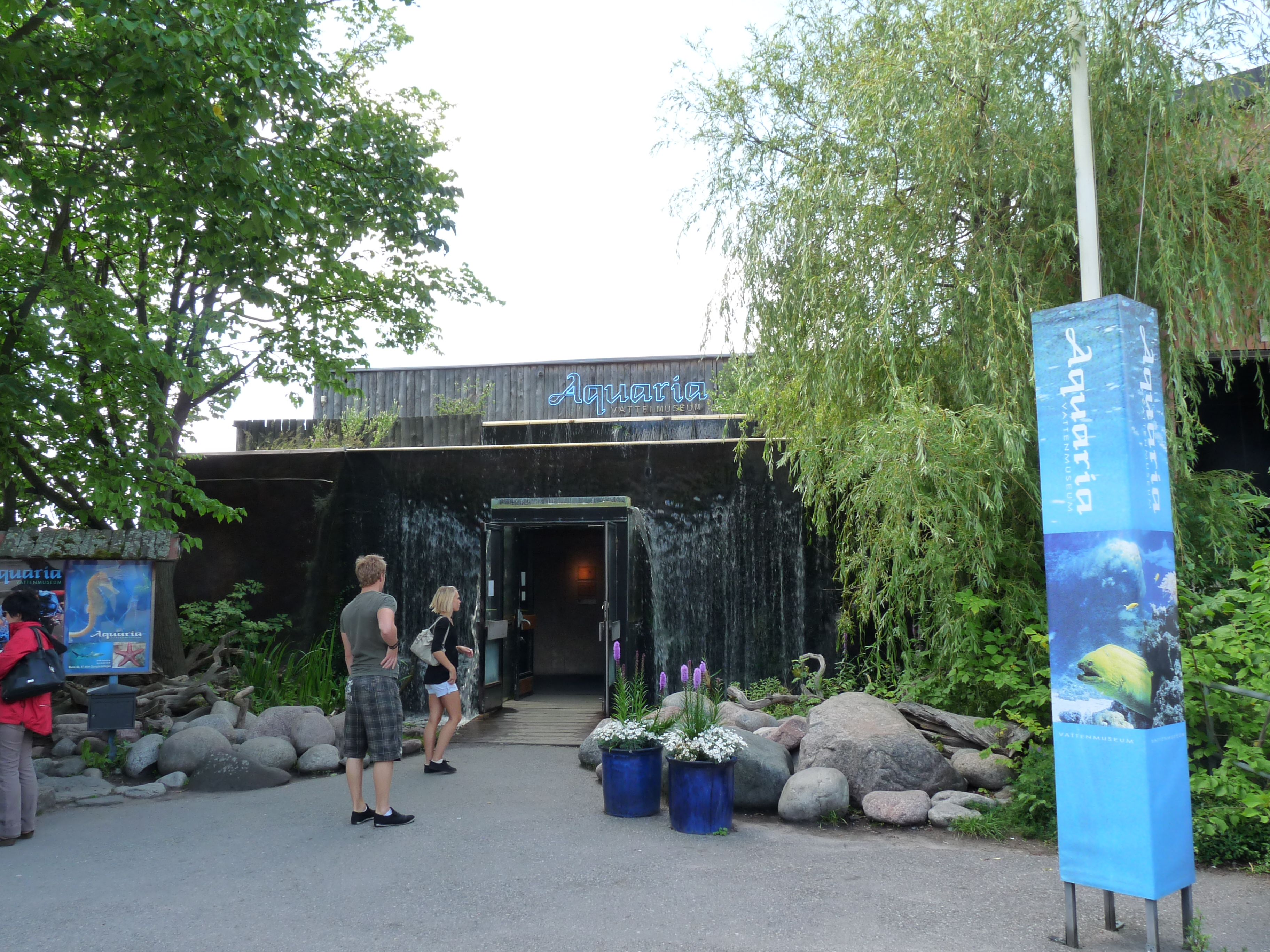 Enterance to Aquaria museum